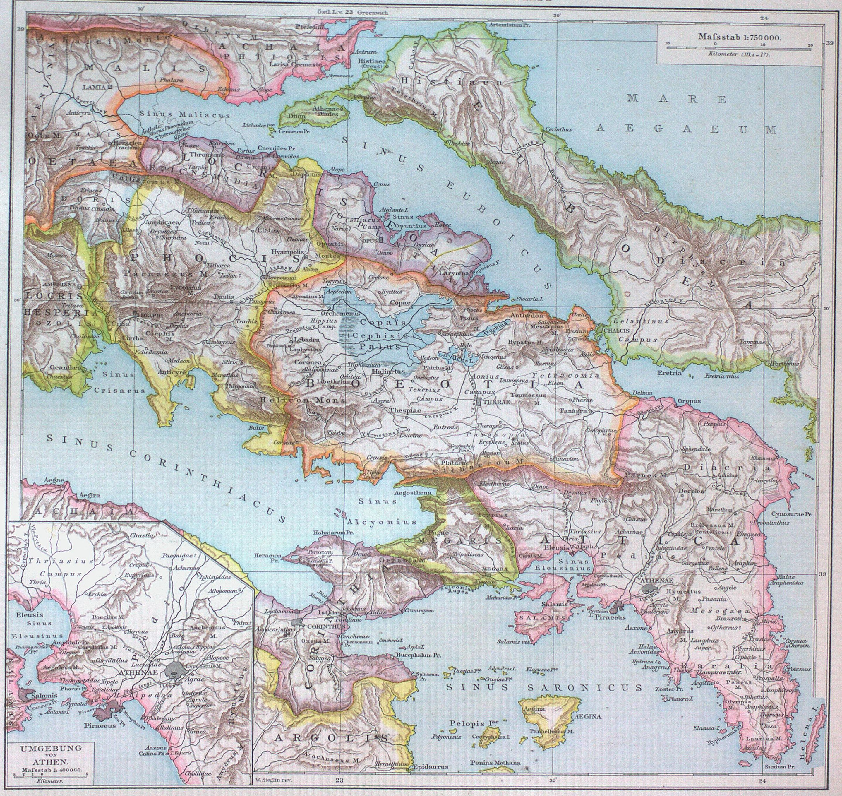 A map of ancient Boeotia, Attica and Phocis in Gustav Droysen’s „Historischer Handatlas“.